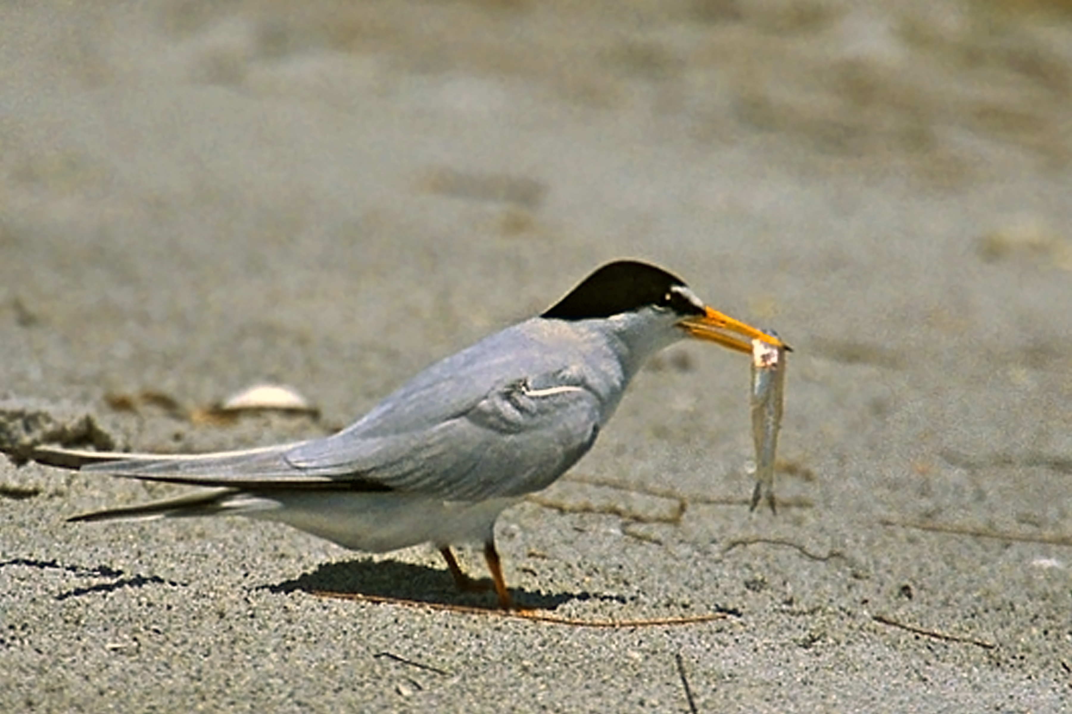 Least Tern Sternula antillarum on Bowman's Beach on Sanibel Island, Florida.